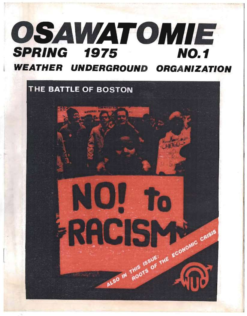 Cover of the first issue of Osawatomie, the underground (and clandestine) newspaper published by the Weather Underground.